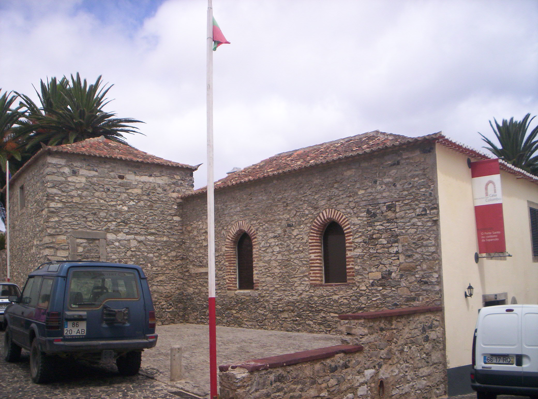 The house of Cristopher Columbus, in the island of Porto Santo, in Portugal